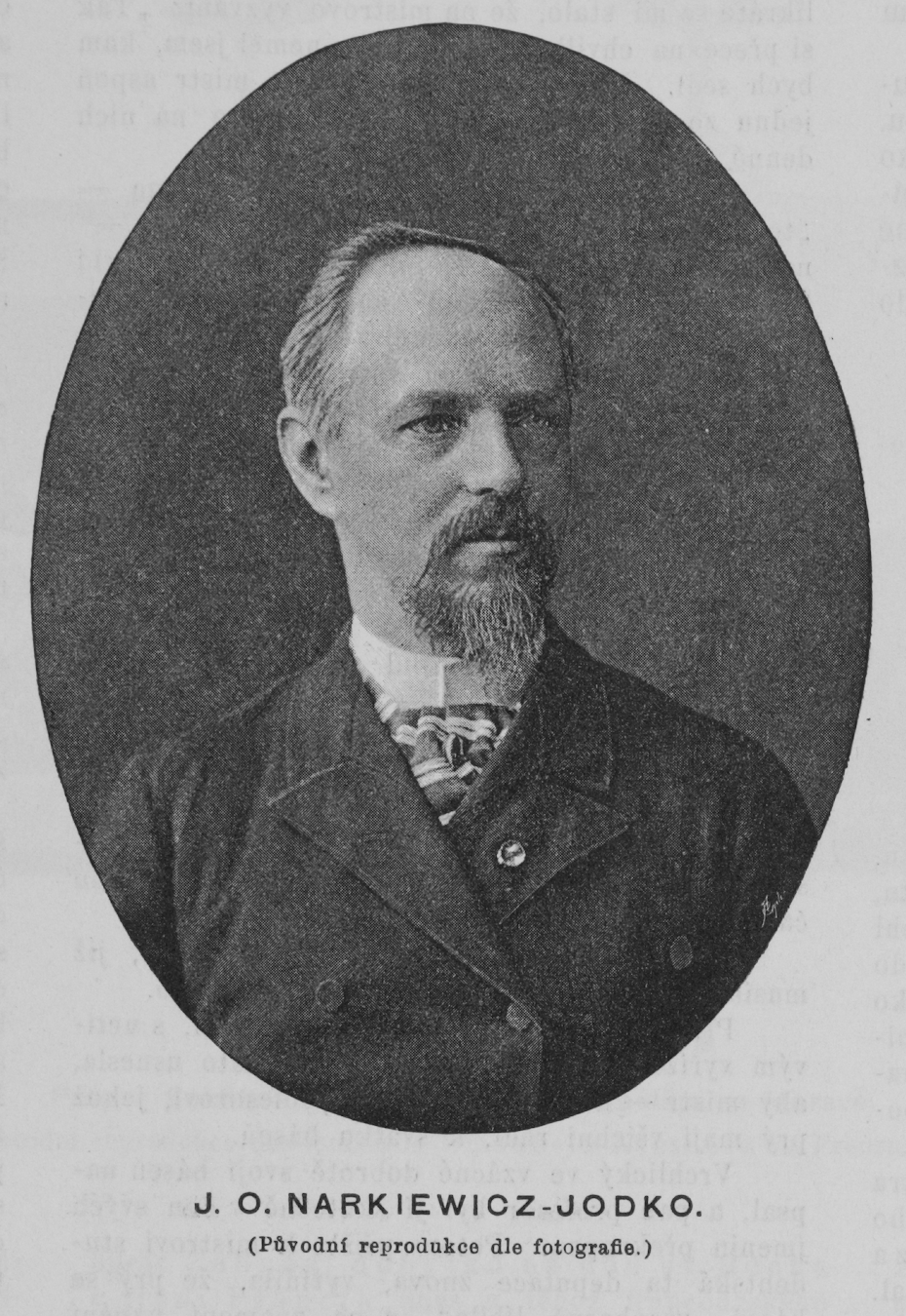 Portrait of Jakub Jodko Narkiewicz (1847 - 1905), Belarusian doctor and scientist (experiments in physics and photography)